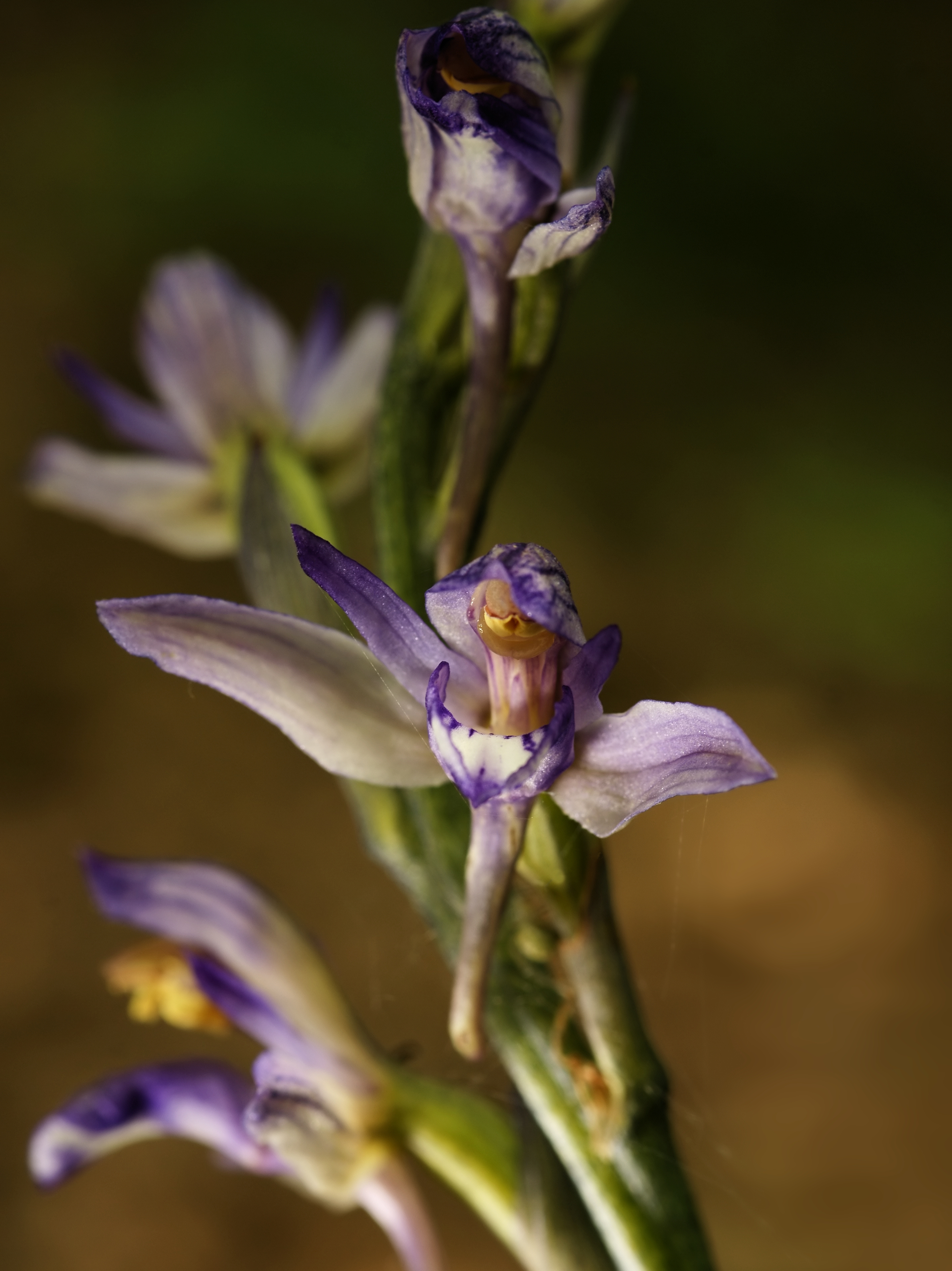 Violet Limodore, a species of myco-heterotrophic orchid which reaches its most northern occurrence in Belgium. Identification: Delforge, P., (2006). Orchids of Europe, North Africa and the Middle East. A & C Black - London. 640 pp. ISBN 9780713675252